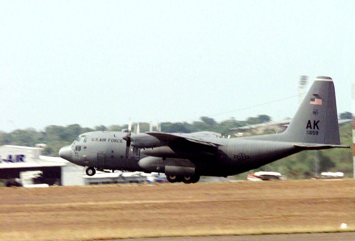 A C-130 aircraft from the 517th Airlift Squadron, Elmendorf Air Force Base, Alaska, takes off from Darwin Royal Australian Air Force Base bound for East Timor to deliver cargo and equipment during Operation Stabilise. The U.S. Air Force is providing logistics, communications, and planning support to International Forces East Timor (INTERFET). INTERFET is providing peacekeeping, humanitarian assistance and force protection to East Timor. (U.S. Air Force Photo by Master Sgt. Val Gempis)